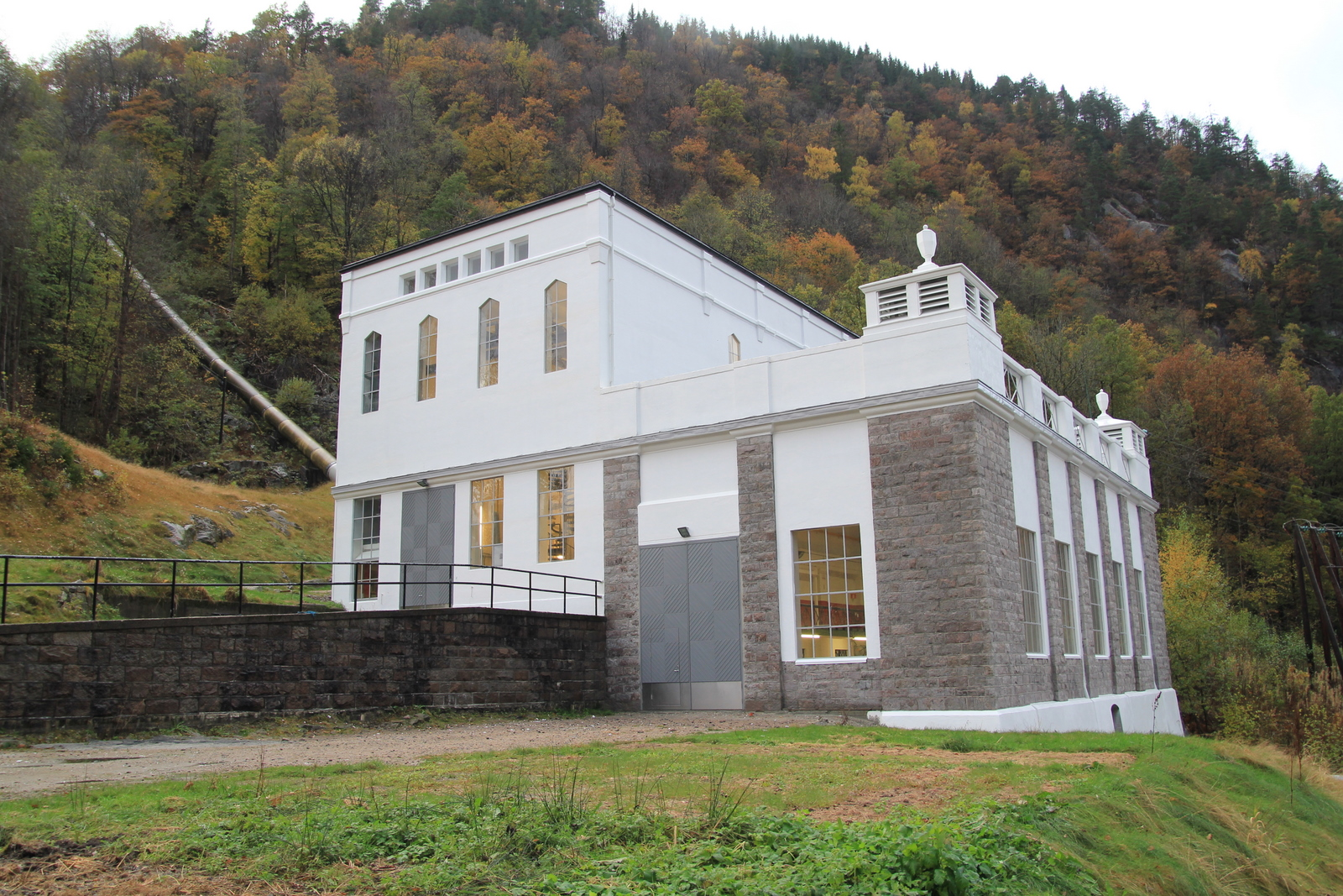 Tryland power station, Lindesnes.